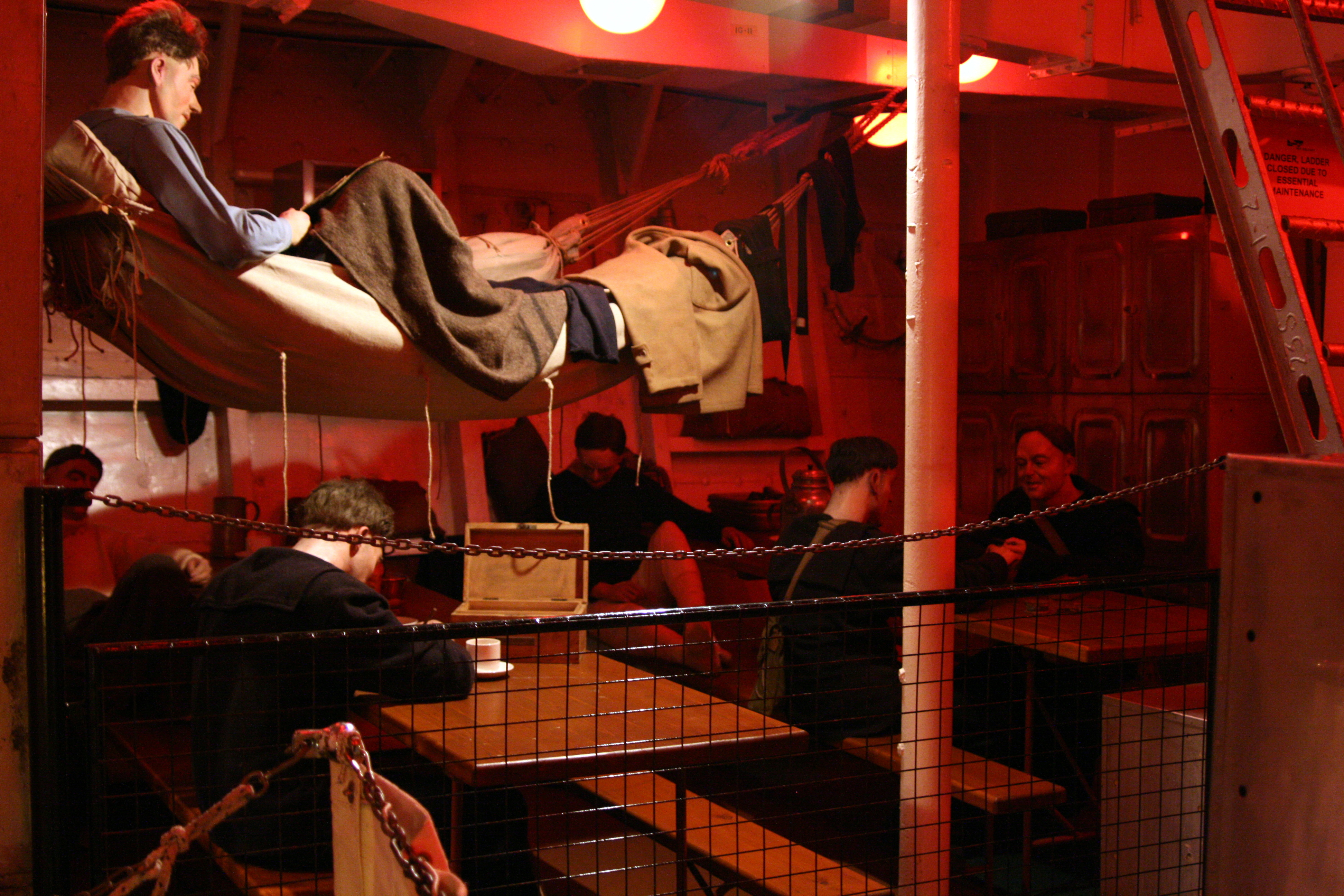 Arctic messdeck on HMS Belfast: near the 6inch gun turret, the crew sleeps and eats.